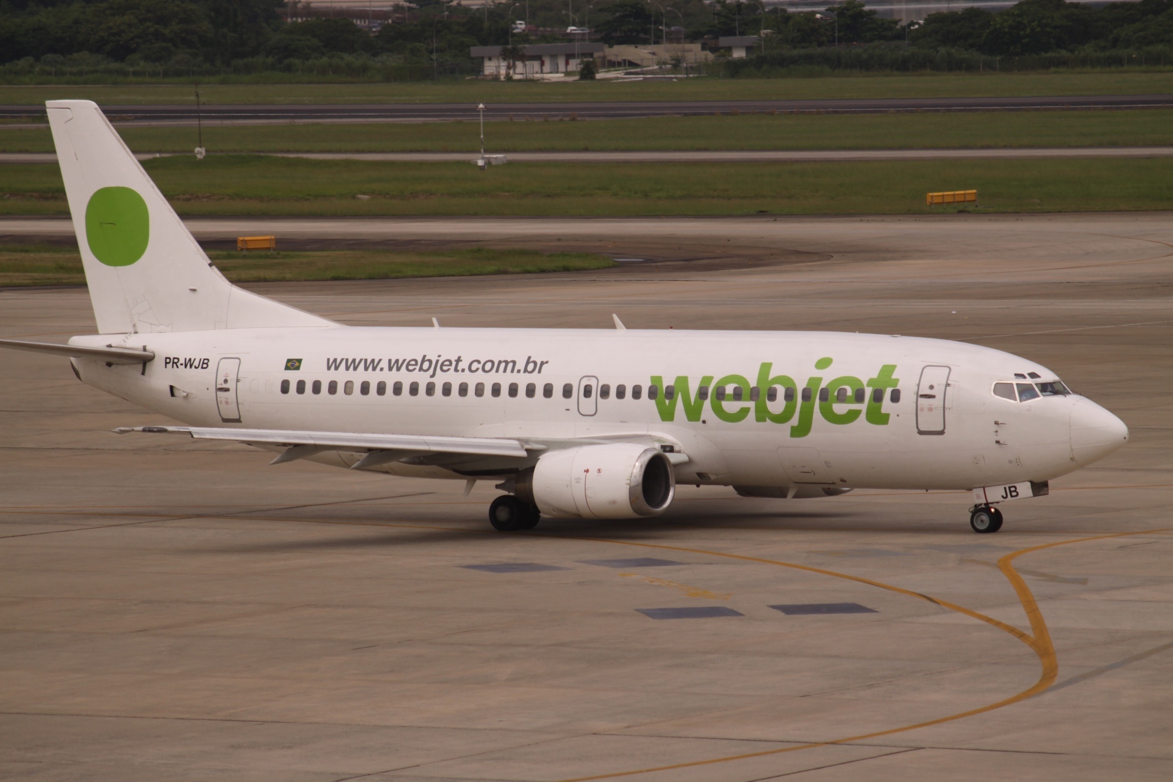 At Rio De Janeiro